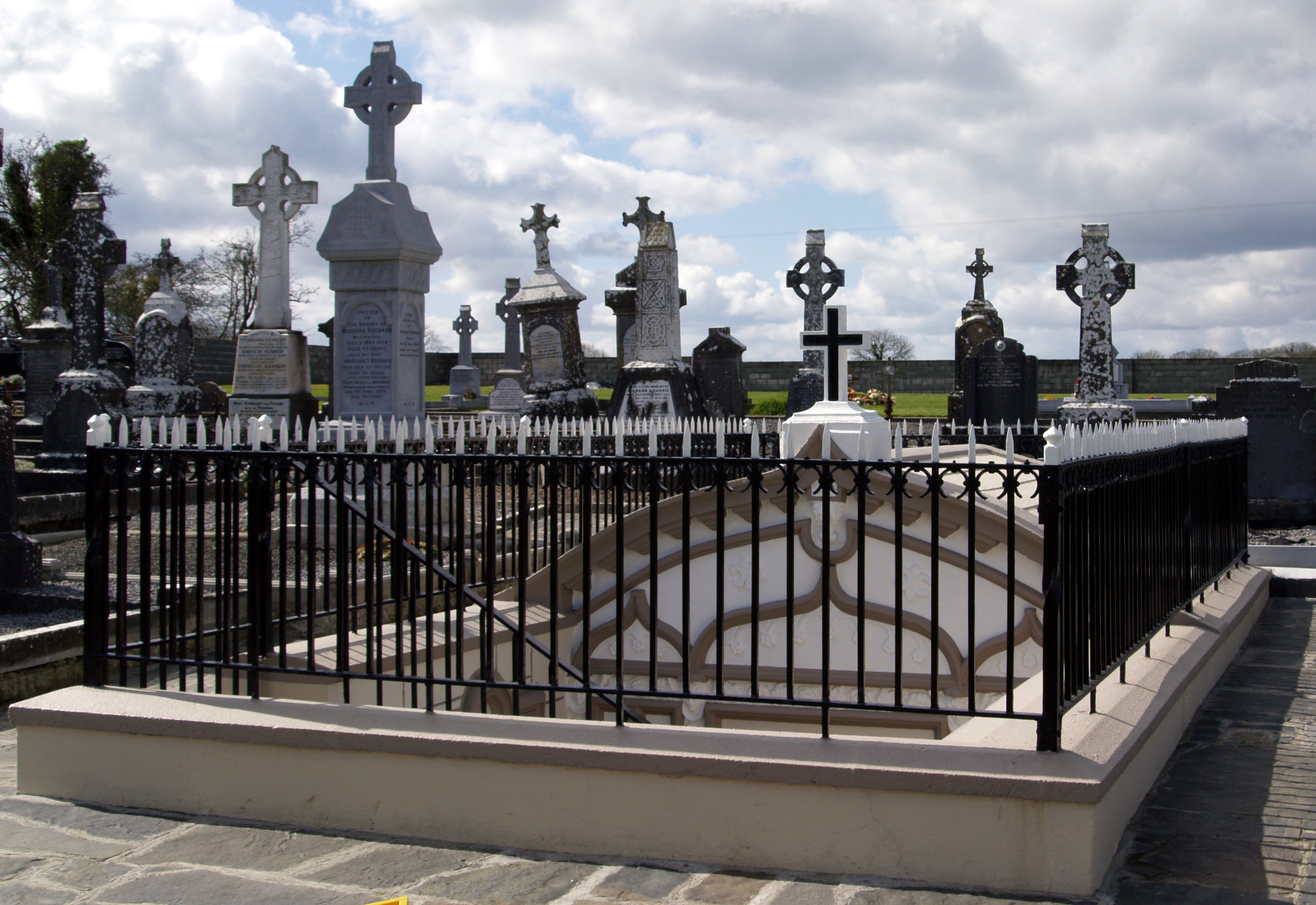 Mc Cormack Brothers Mausoleum, Loughmore Churchyard, Loughmore, Templemore, County Tipperary, Ireland